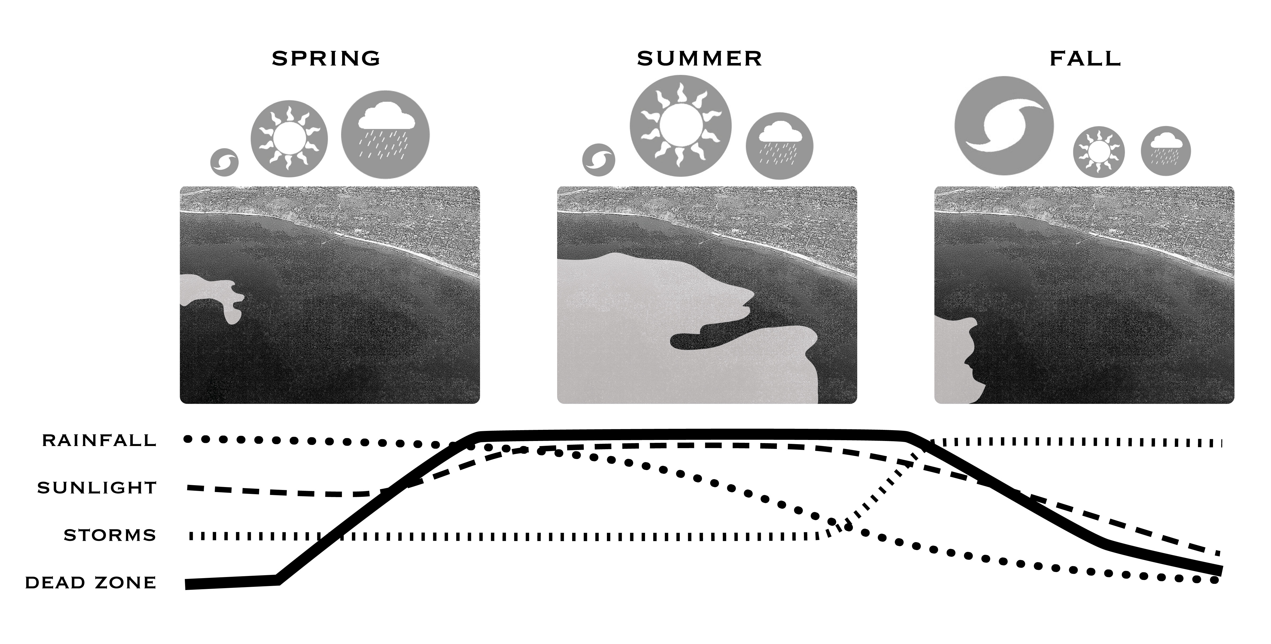 the affect of climate on ecological dead zones in the Gulf of Mexico